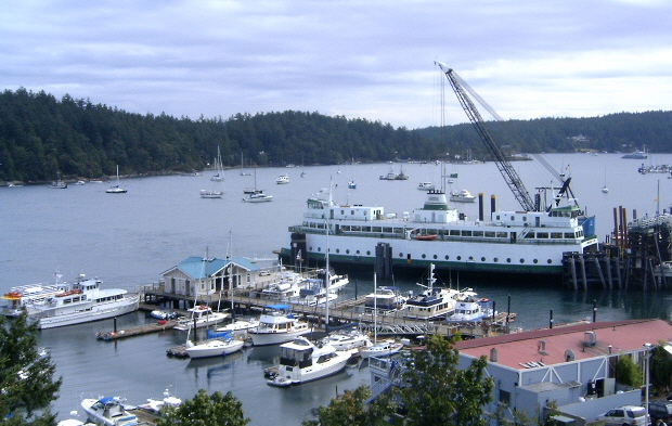 Port of Friday Harbor, Washington, in August 2003.